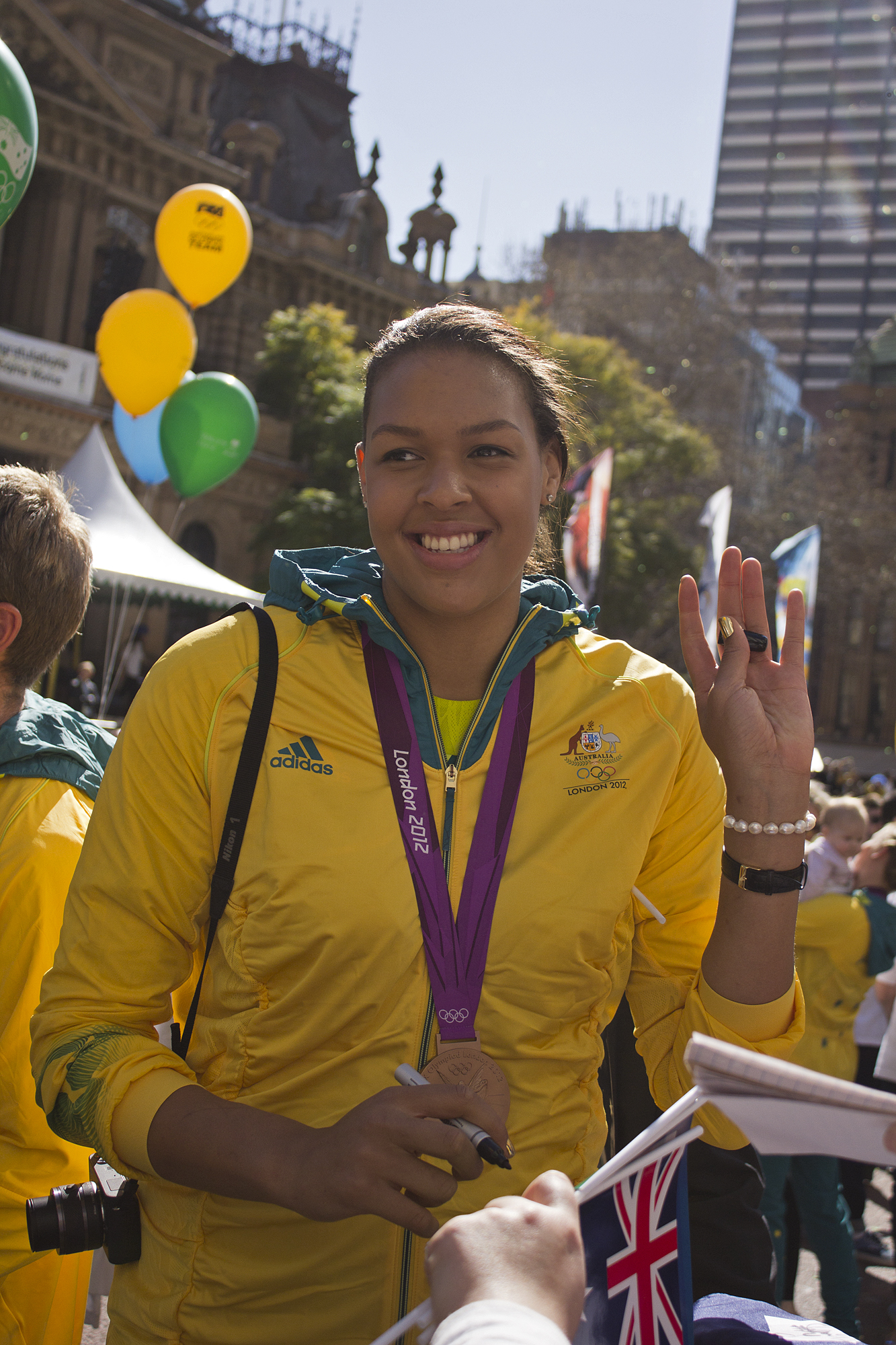 Liz Cambage at the Welcome Home parade in Sydney.